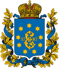 Coat of arms of Yekaterinoslav Governorate, Russian Empire